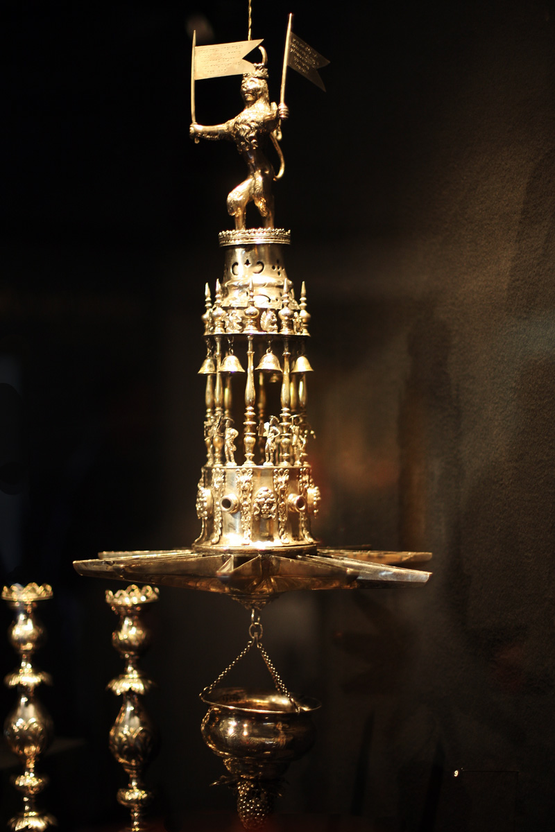 Sabbath/Festival Lamp Johann Valentin Schüler, 1650-1720; master 1680 Frankfurt am Main (Germany), 1680-1720 Silver: cast, repoussé, and engraved Height: 22 1/4 in. (56.5 cm) Diameter: 14 3/4 in. (37.5 cm) The Jewish Museum, New York Jewish Cultural Reconstruction, JM 37-52 Wikipedia Loves Art at the Jewish Museum (New York City) This photo of item # JM-37-52 at the Jewish Museum (New York City) was contributed under the team name "shooting_brooklyn" as part of the Wikipedia Loves Art project in February 2009. Jewish Museum (New York City) The original photograph on Flickr was taken by shooting brooklyn—please add a comment to the original Flickr page whenever a use has been made on Wikipedia or another project. Project galleries on Flickr: this institution, this team